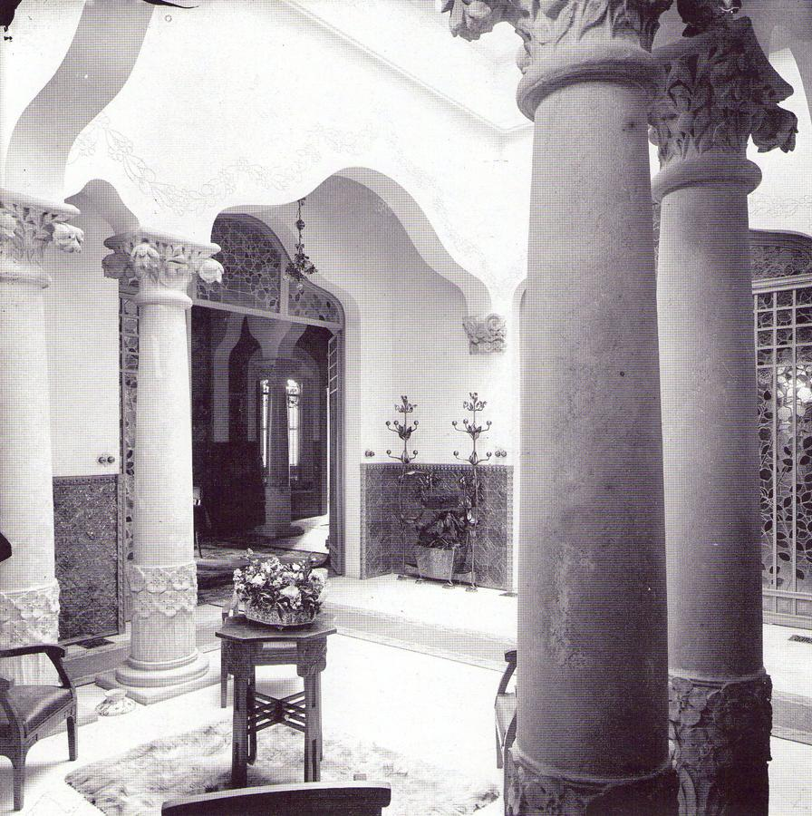 Patio de la Casa Trinxet, característica del modernisme catalán, estuvo ubicada en Calle Còrcega, 268, Barcelona, España.